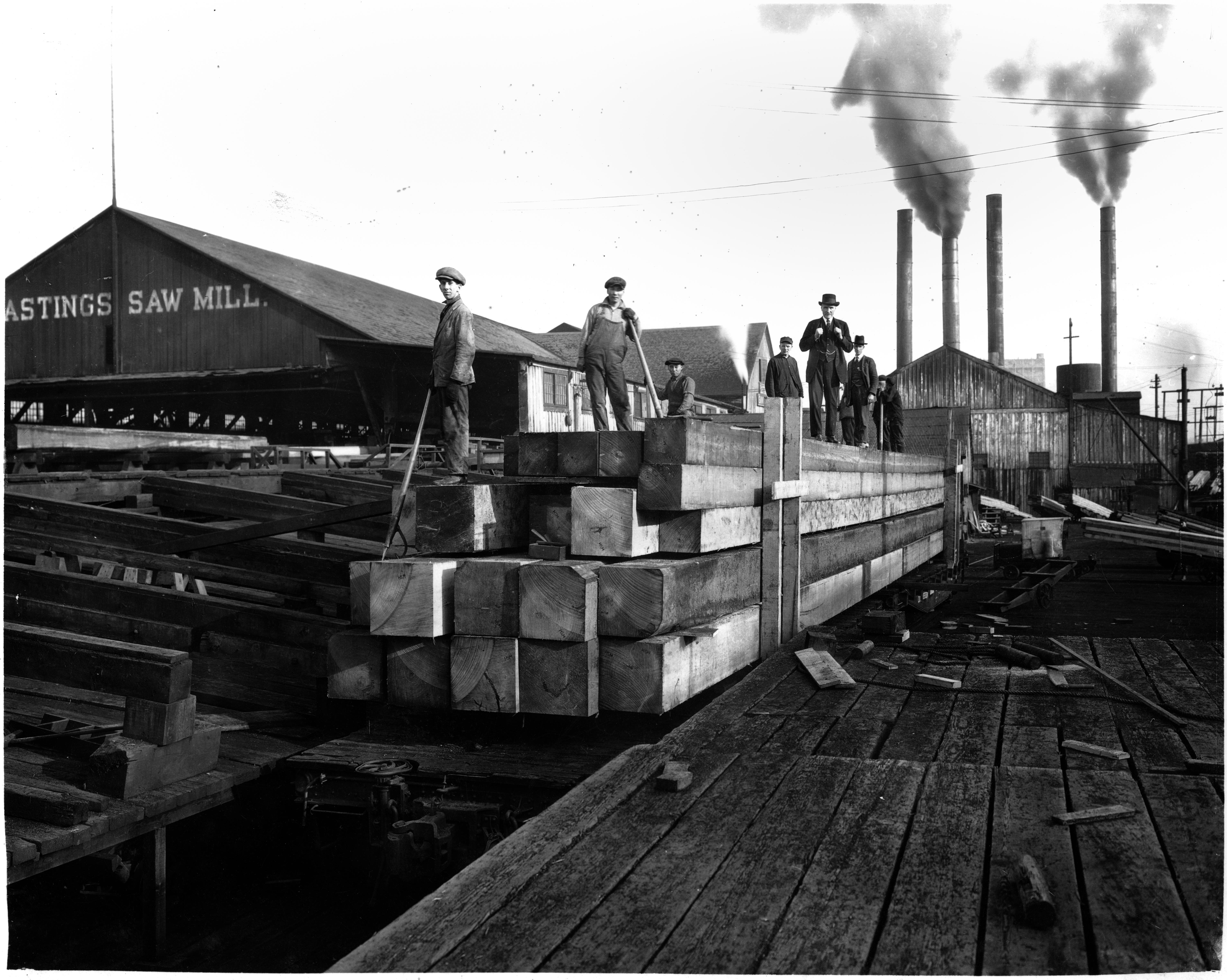 PHOTO NUMBER: VPL 3653 DESCRIPTION: Large timbers being loaded onto flat cars at Hastings Sawmill, Chinese men working, Strathcona, Vancouver, BC Date: 1925 Photographer/Studio: Frank, Leonard SUBJECTS: Lumbering, Chinese Canadians More information on our historical photograph collection